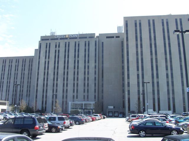 Old headquarters of Wang Laboratories in Lowell, MA